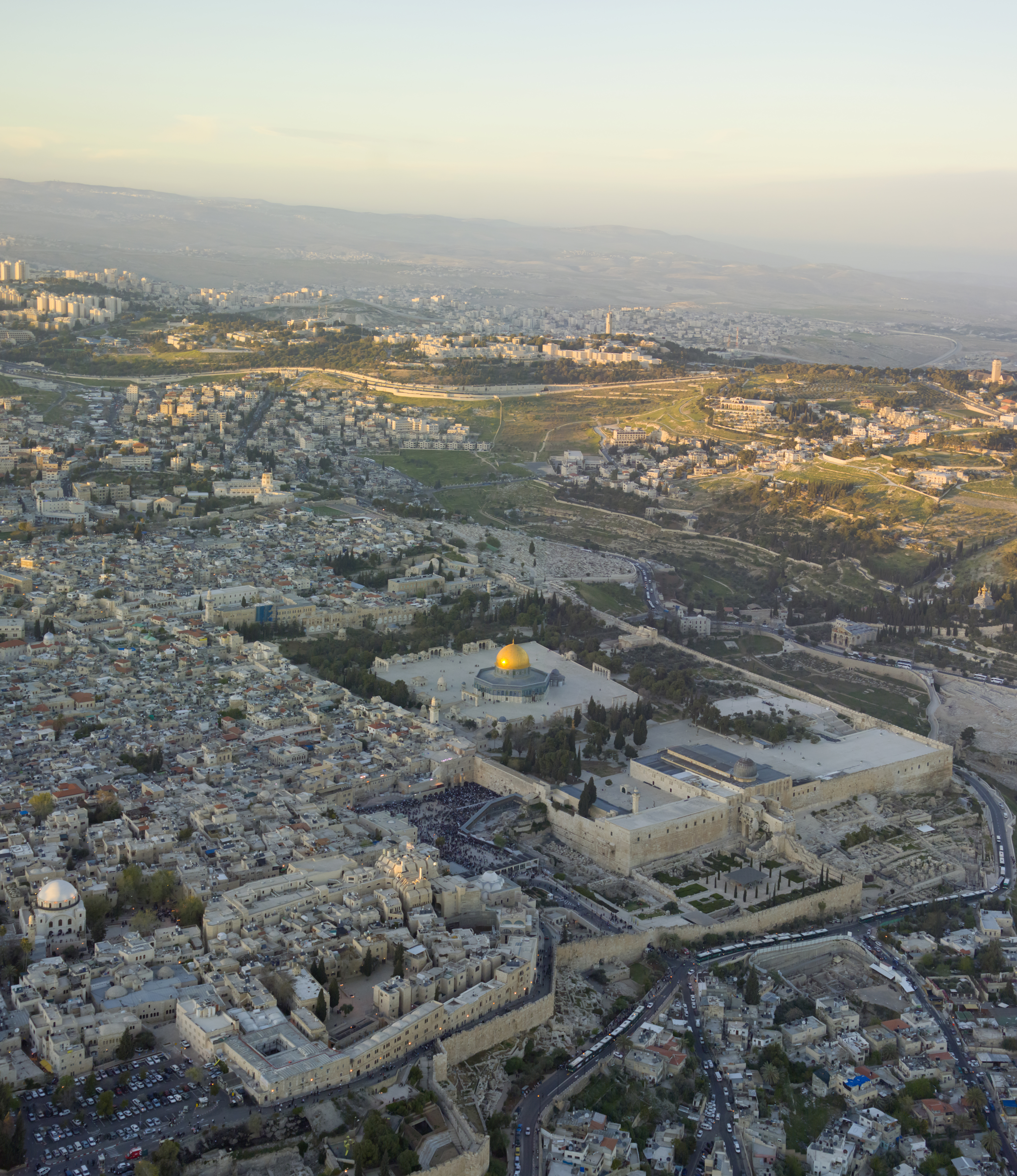 Sunset aerial view of the Temple Mount (Hebrew: הַר הַבַּיִת) (Arabic: الحرم القدسي الشريف, in the Old City of Jerusalem.